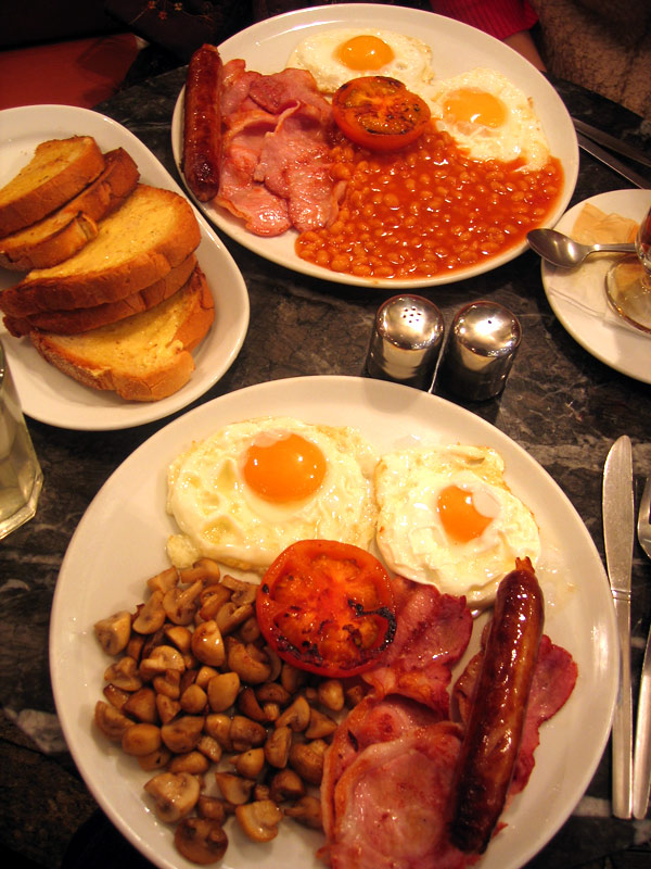 Tasty fry-ups for breakfast.